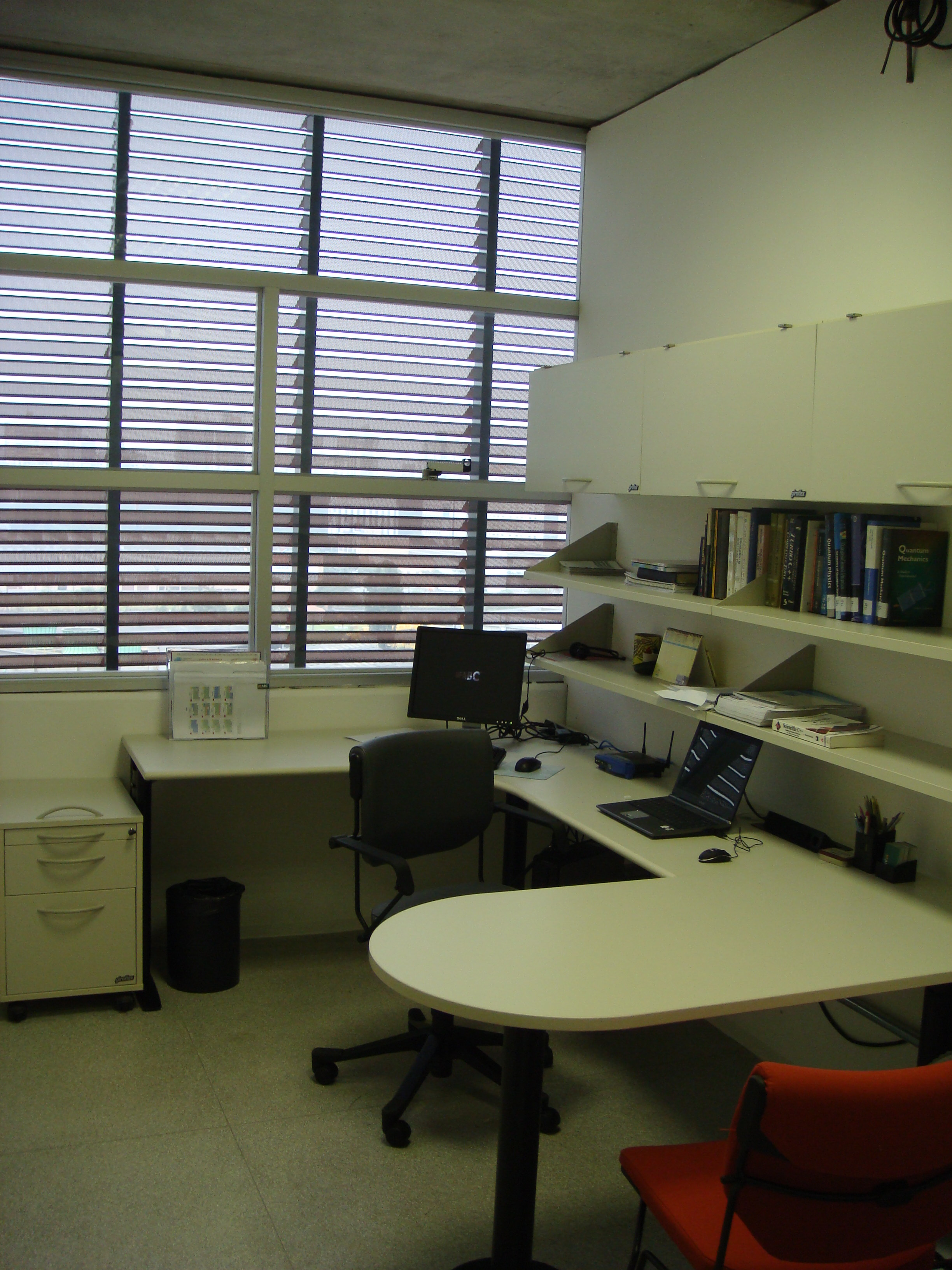 Typical room UFABC faculty.